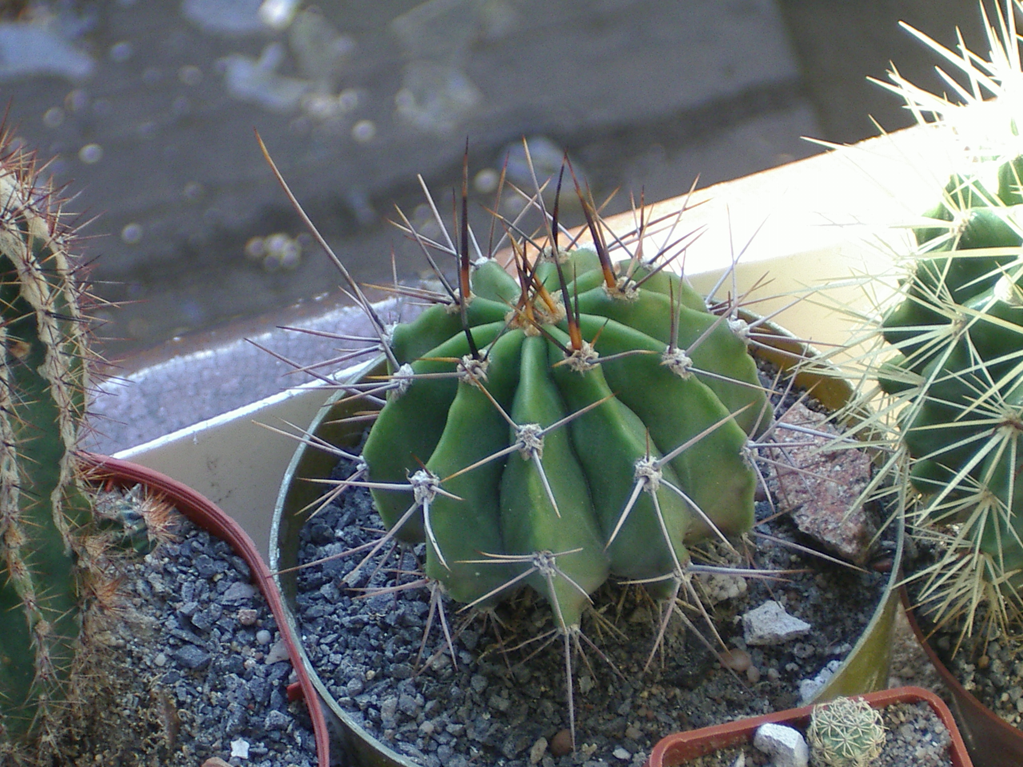 Echinopsis rhodotricha ssp. chacoana